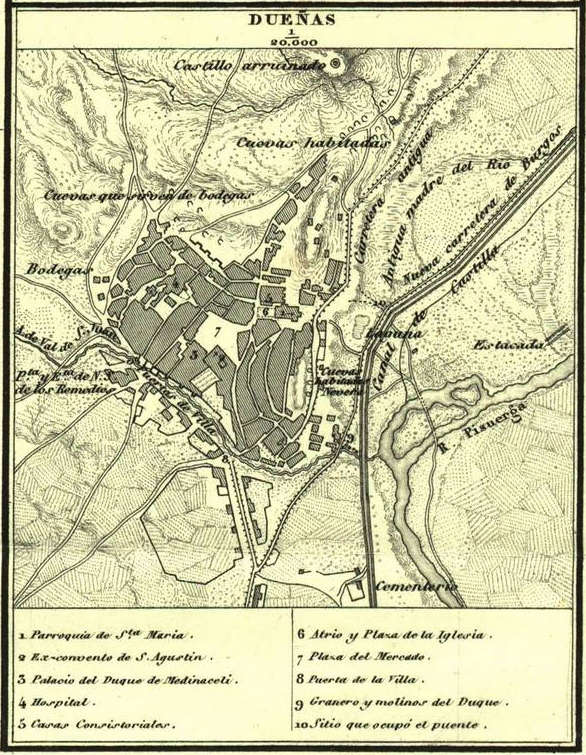 Map of Dueñas cropped from the 1852 province of Palencia map by Francisco Coello